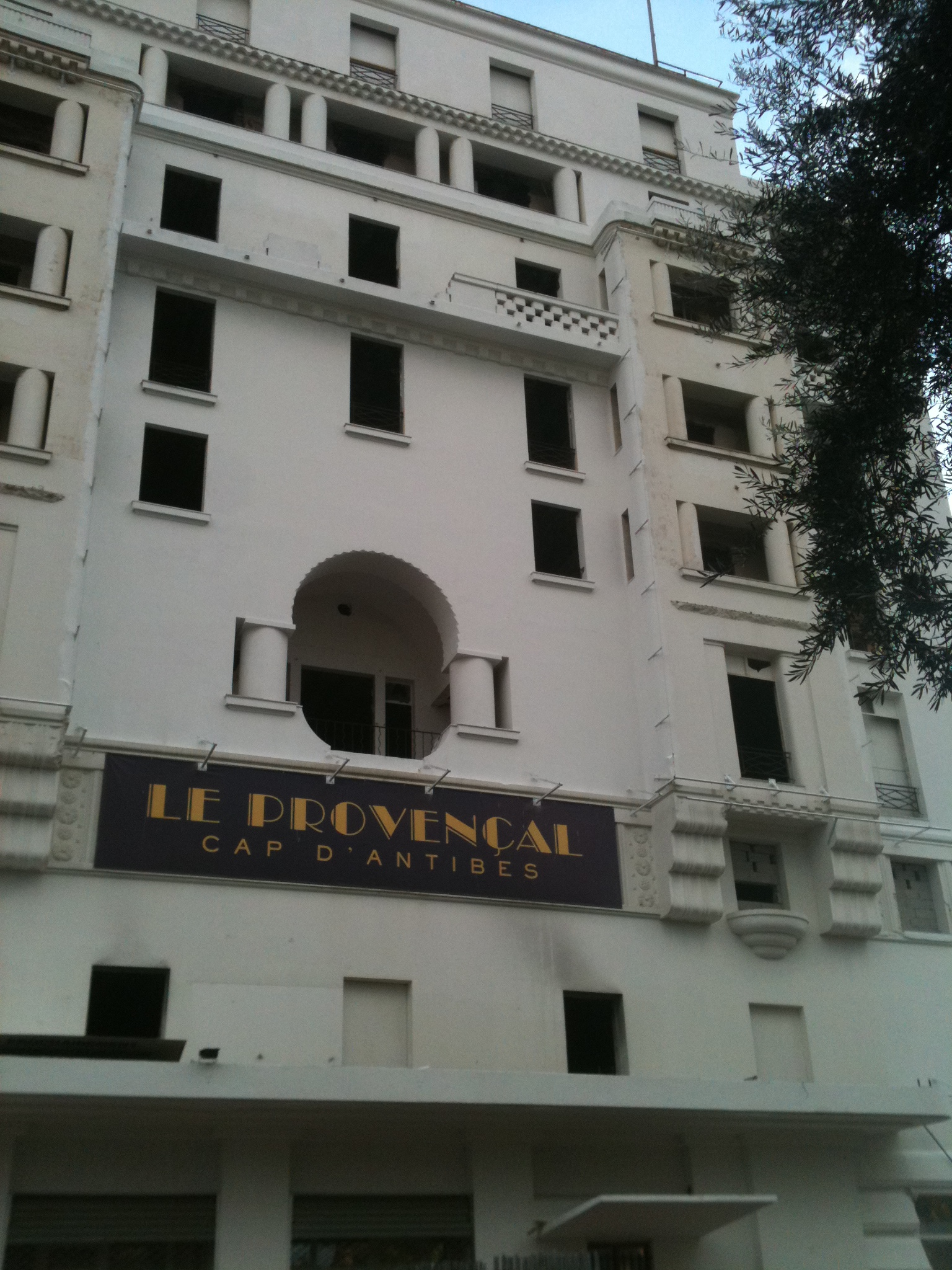 Le Provencal currently being renovated as of 2013